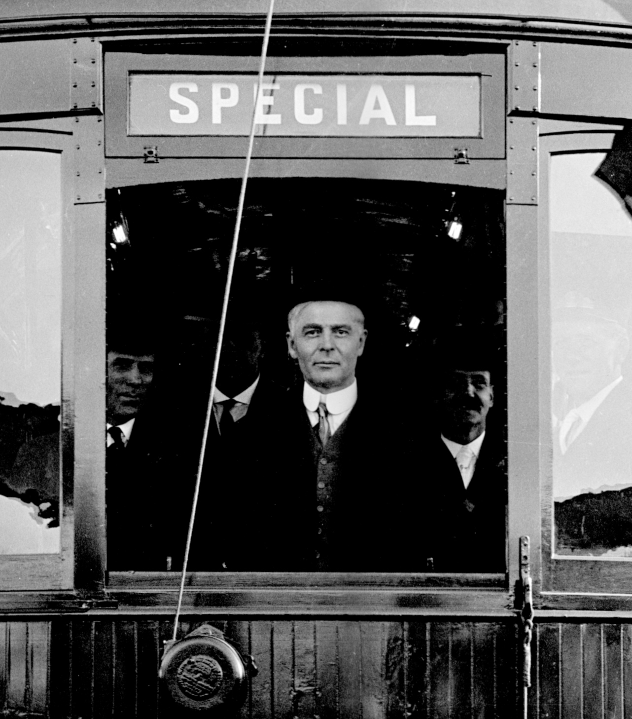 Seattle Mayor Ole Hanson ceremonially drives the first municipal streetcar over University Bridge, Seattle, Washington. Cropped. Item 12660, Department of Streets and Sewers Photographs (Record Series 2625-10), Seattle Municipal Archives.